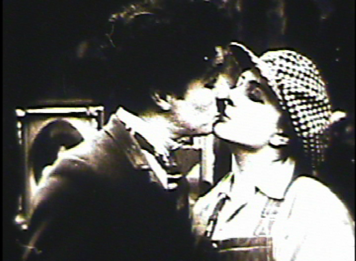 Chaplin kissing the romantic lead while she is in drag.